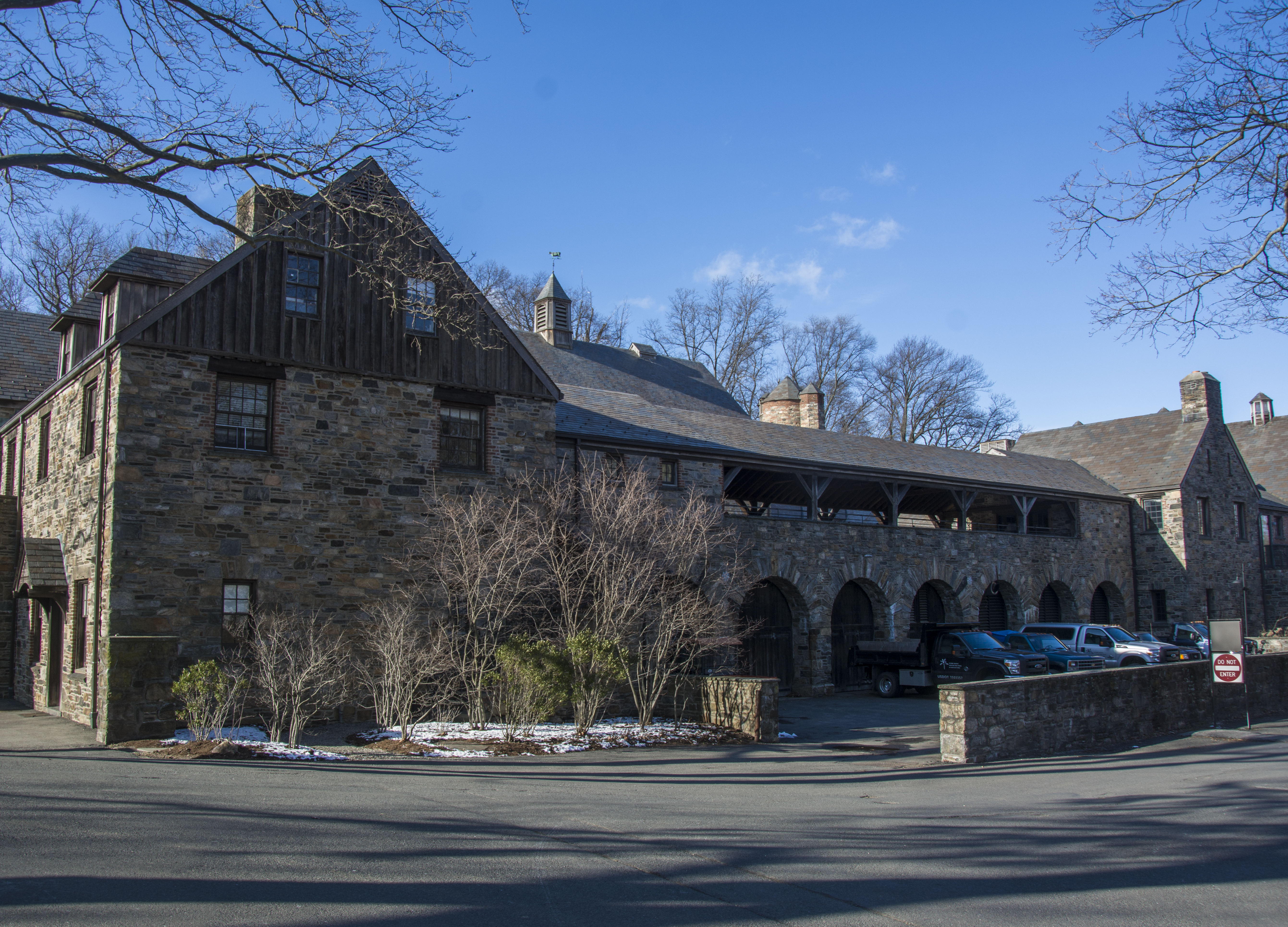 The Stone Barns Center for Food & Agriculture and Blue Hill at Stone Barns, 2017.